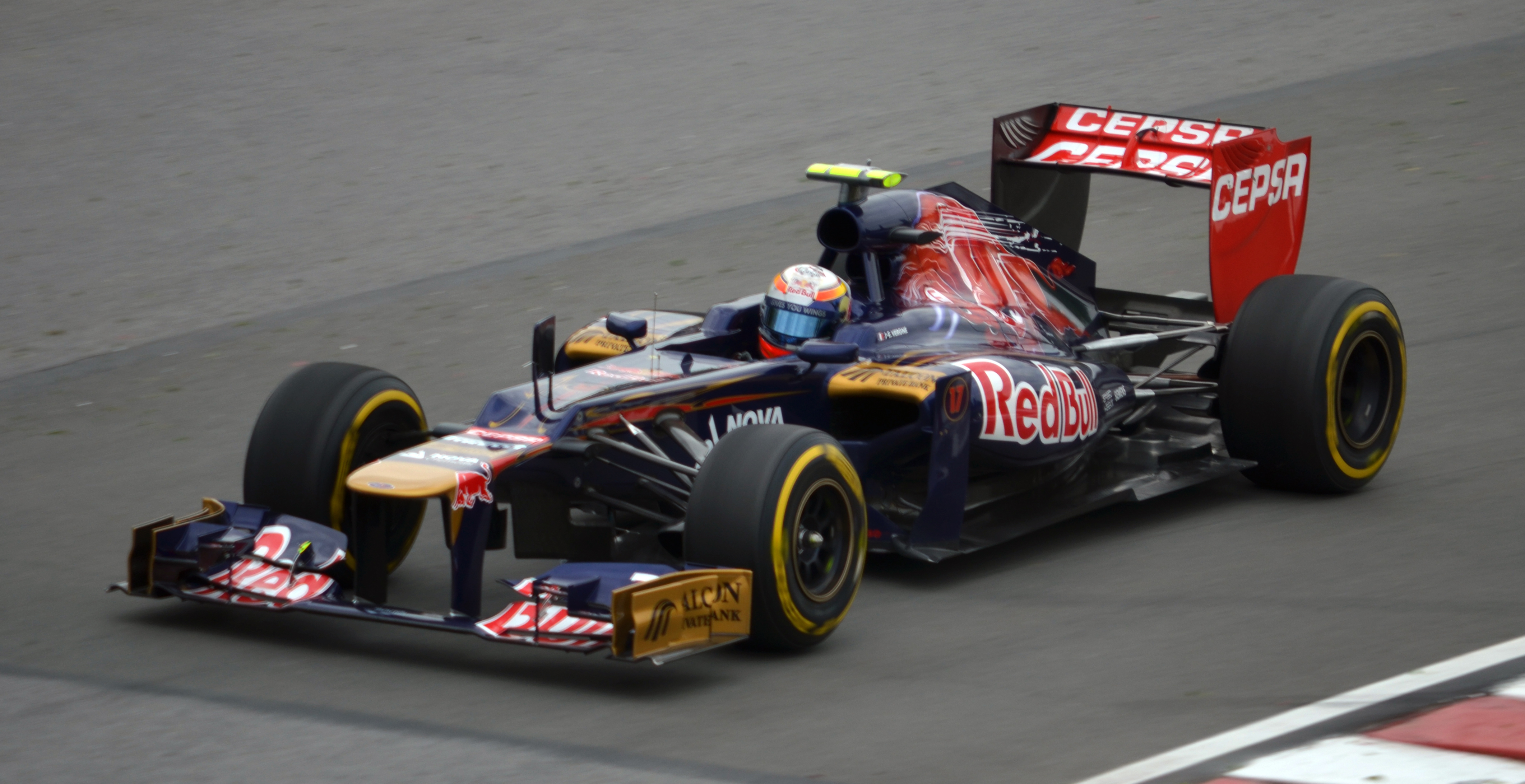 Jean-Éric Vergne in the Toro Rosso - Ferrari STR7 exits turn 9 at Circuit Gilles Villeneuve during first practice for the 2012 Canadian Grand Prix.